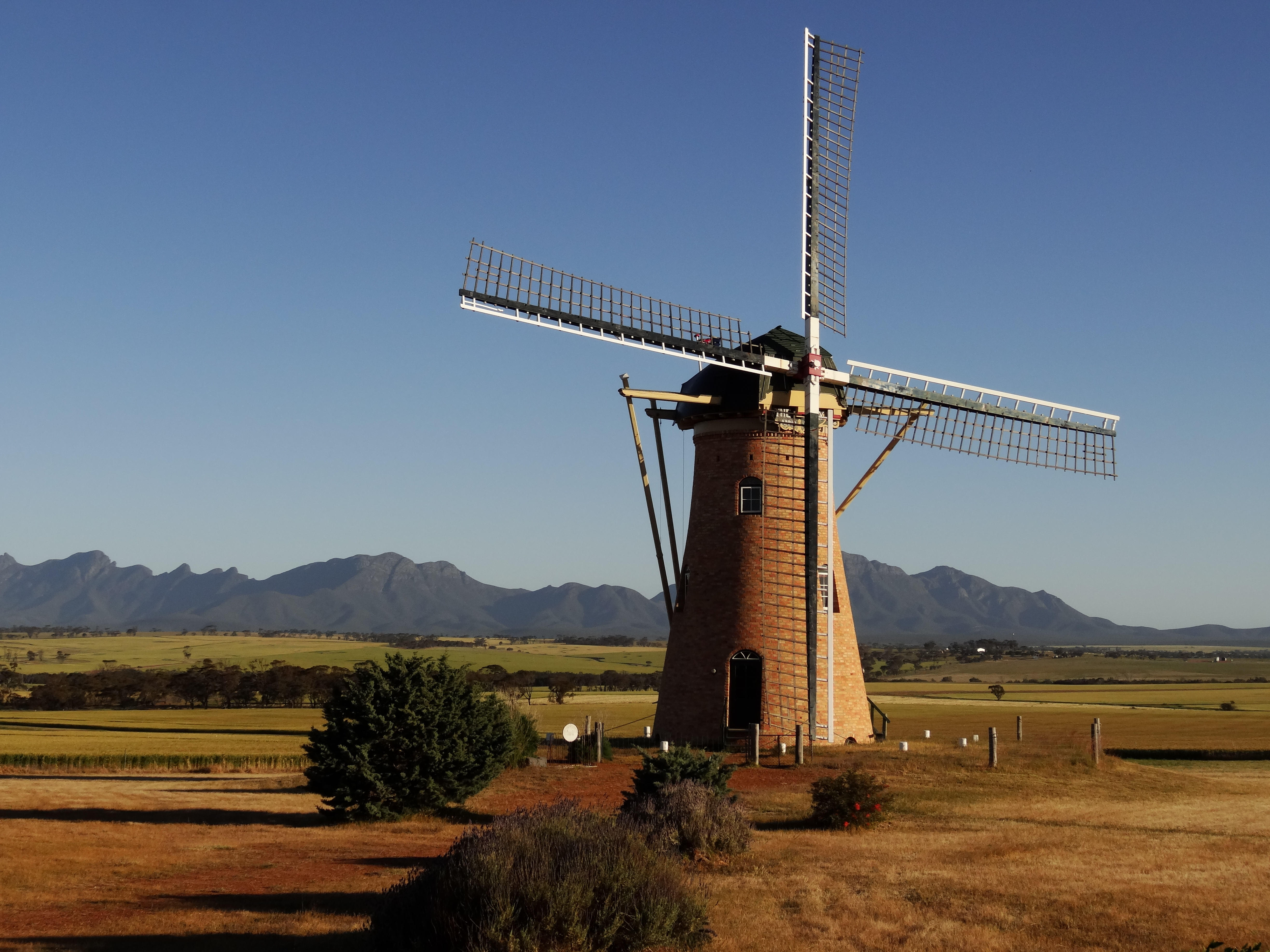 The Lily windmill with Stirling range in the backdrop